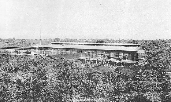 Angaur Phosphate Factory